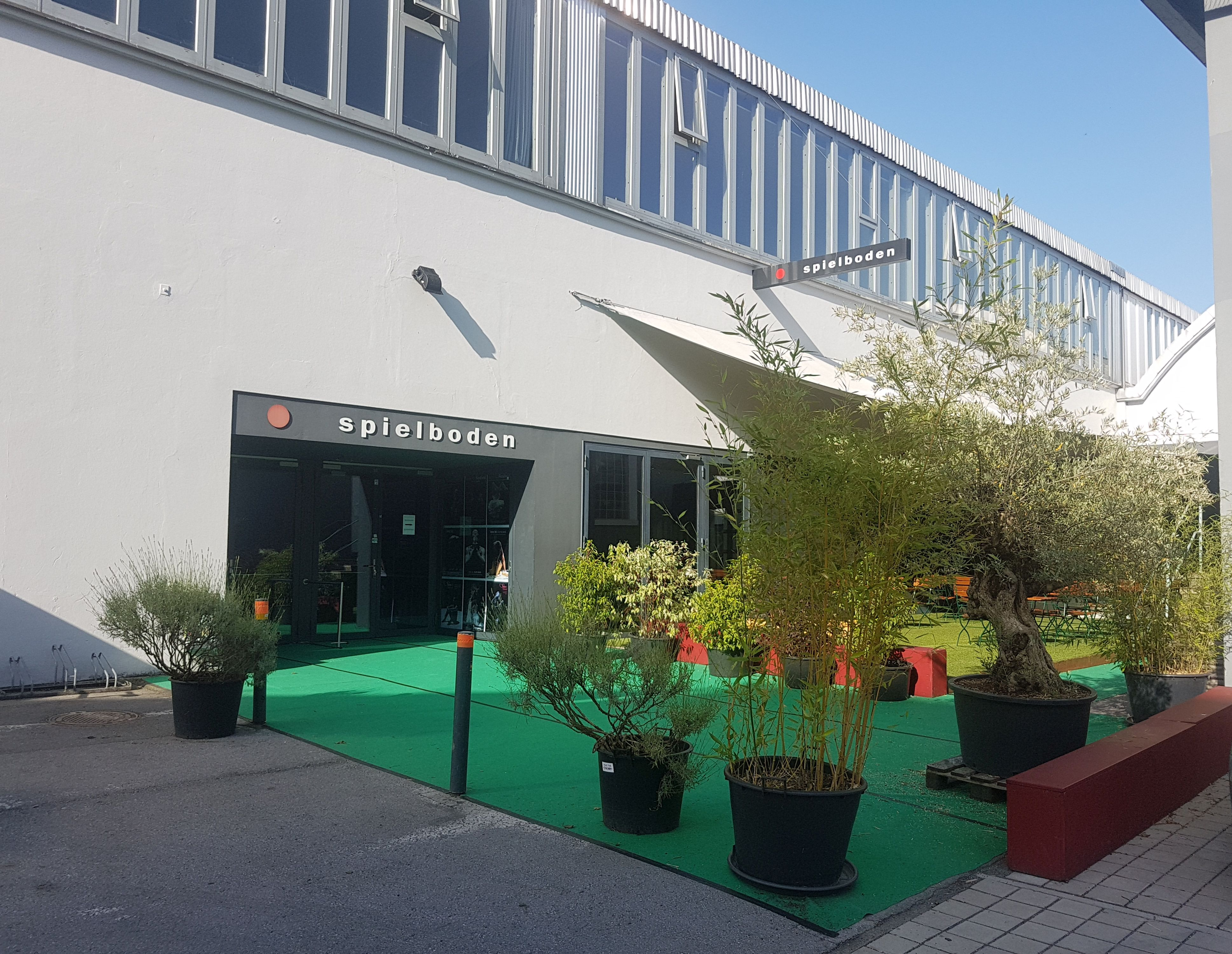 Spielboden is the largest cultural center in Austrian state Vorarlberg. The Spielboden is located in Dornbirn in the former textile factory "Rhombergs Fabrik" in the district Rohrbach.